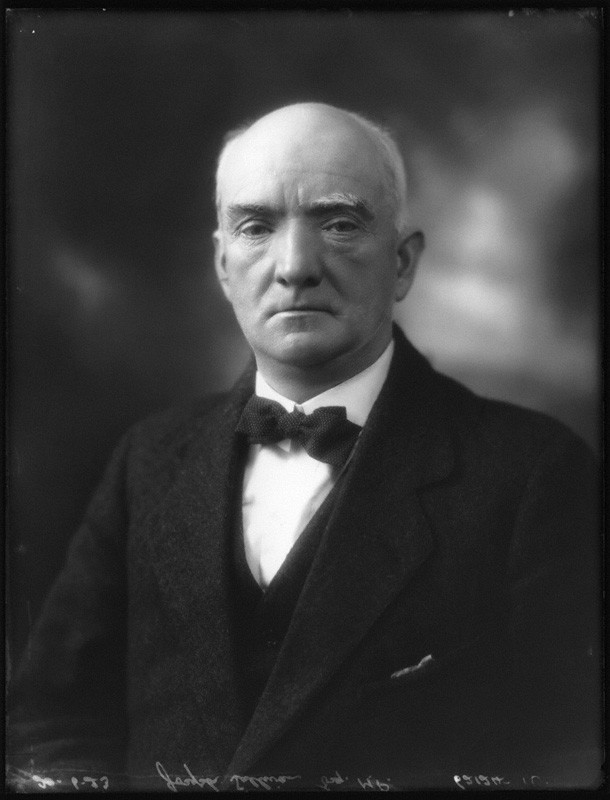 Portait of Joseph Sullivan (MP)